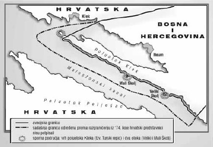 Klek peninsula and boarder between Republic of Croatia and Bosnia and Herzegovina